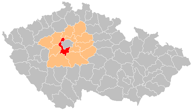 Prague-West District within Central Bohemian Region. Current borders of districts since January 1, 2007.